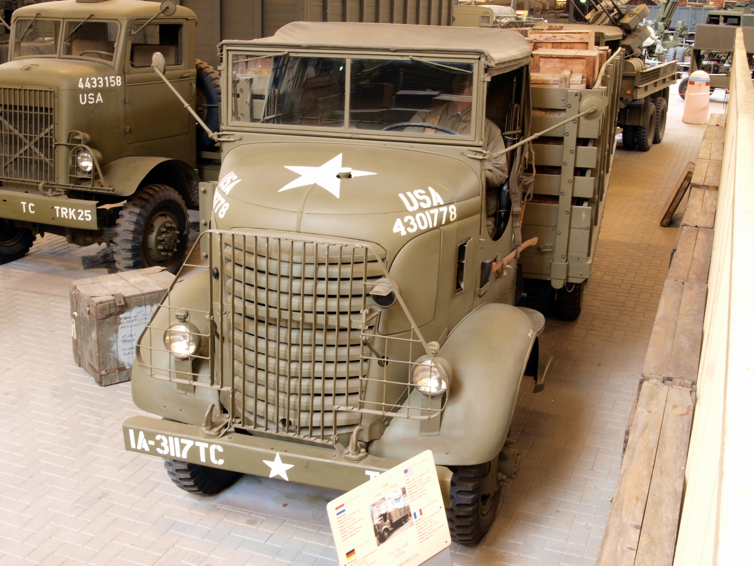 Photographed at the Marshallmuseum - Liberty Park - Oorlogsmuseum Overloon, The Netherlands.